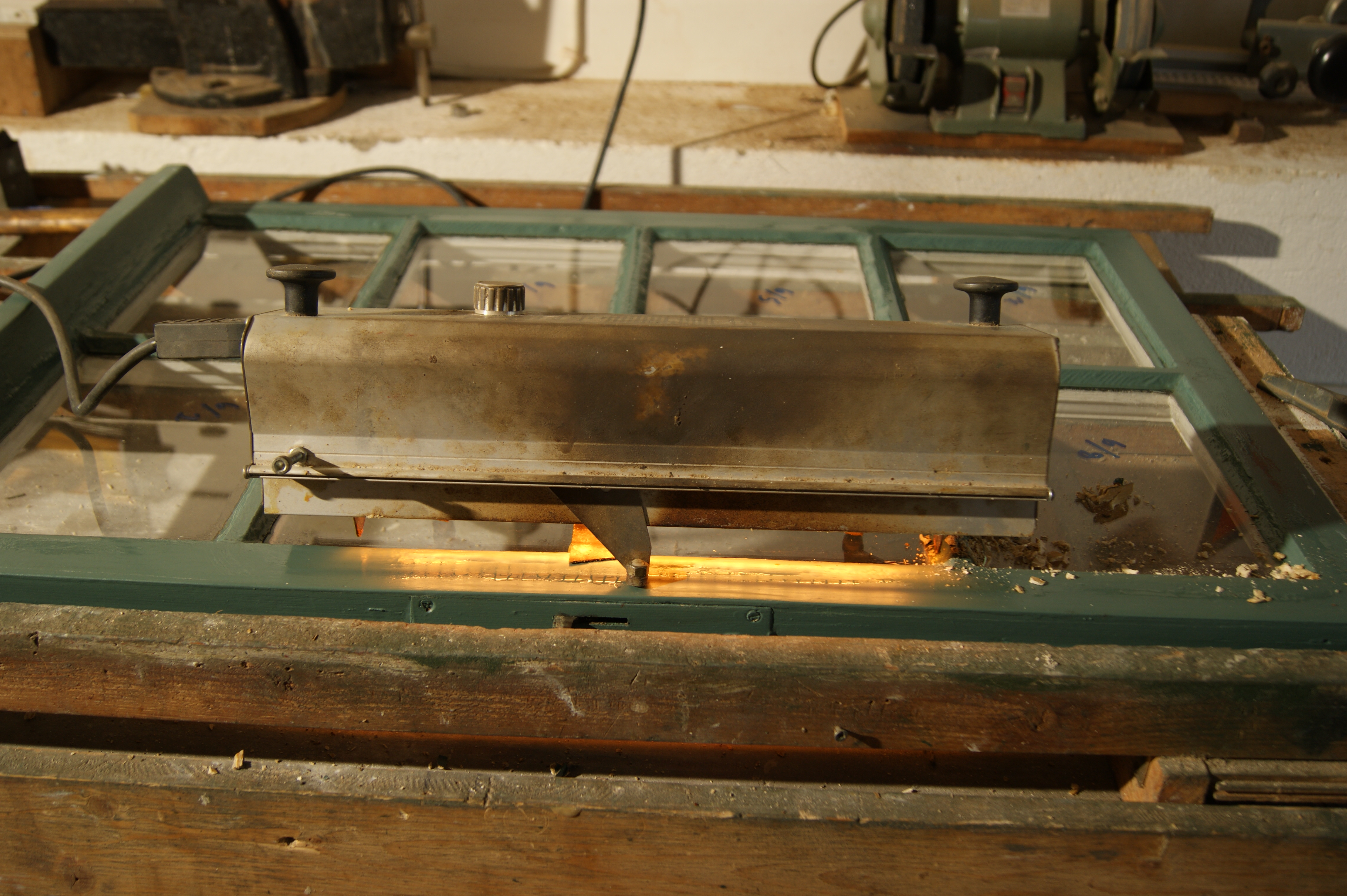 putty lamp